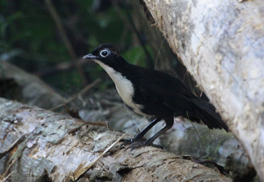 Kuranda, Queensland, Australia.